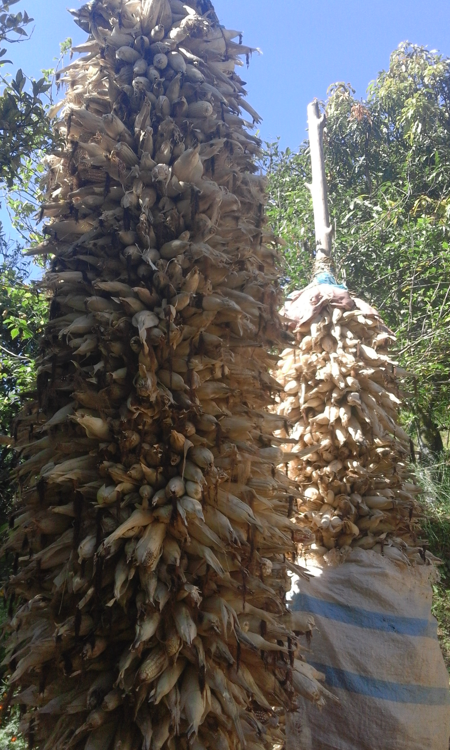 Traditional way of Maize storing in Darchula Nepal.